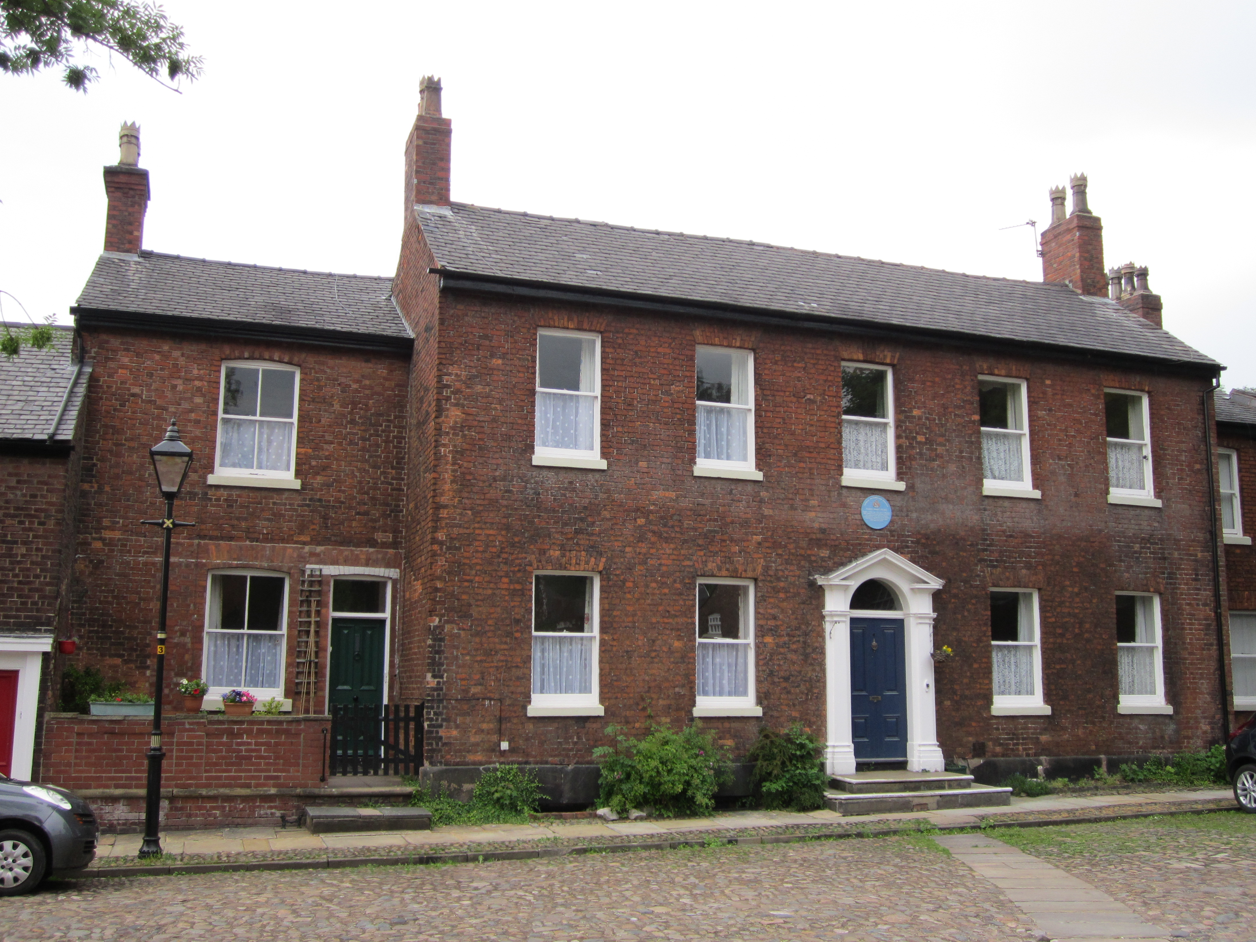 Photo taken at the Fairfield Moravian Settlement, Greater Manchester, England.